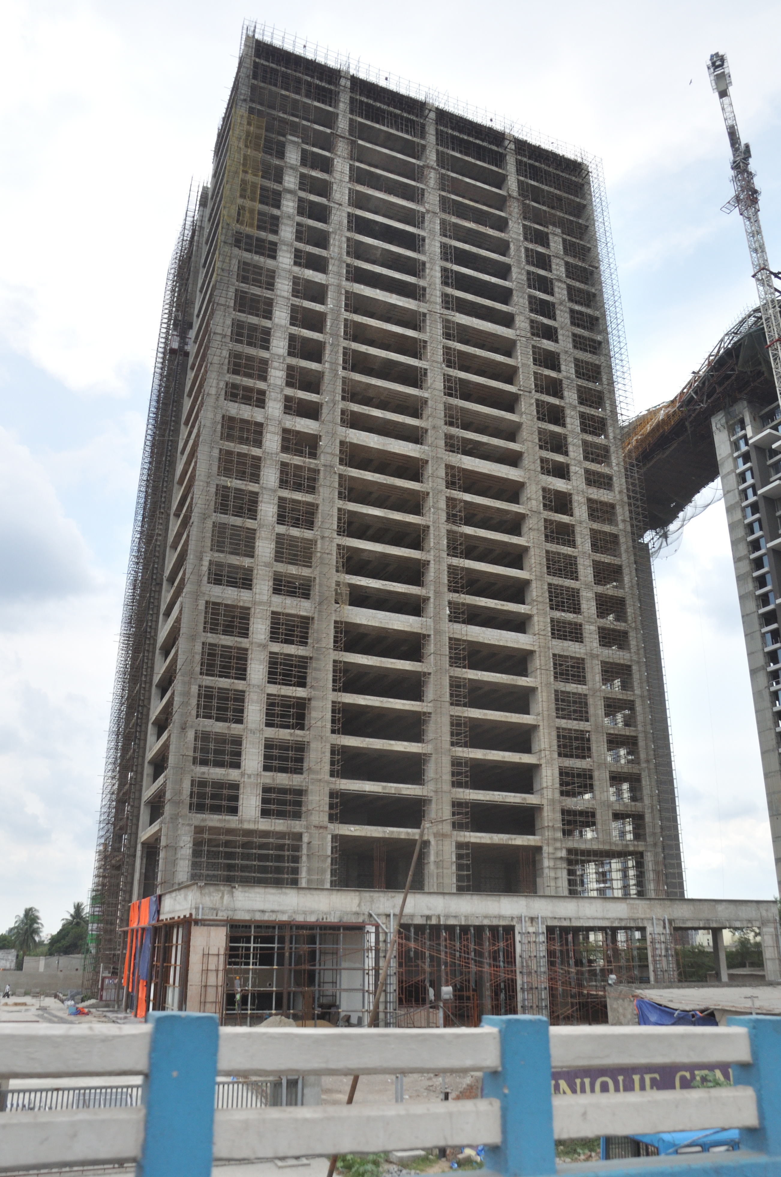 Photographed in Kolkata.